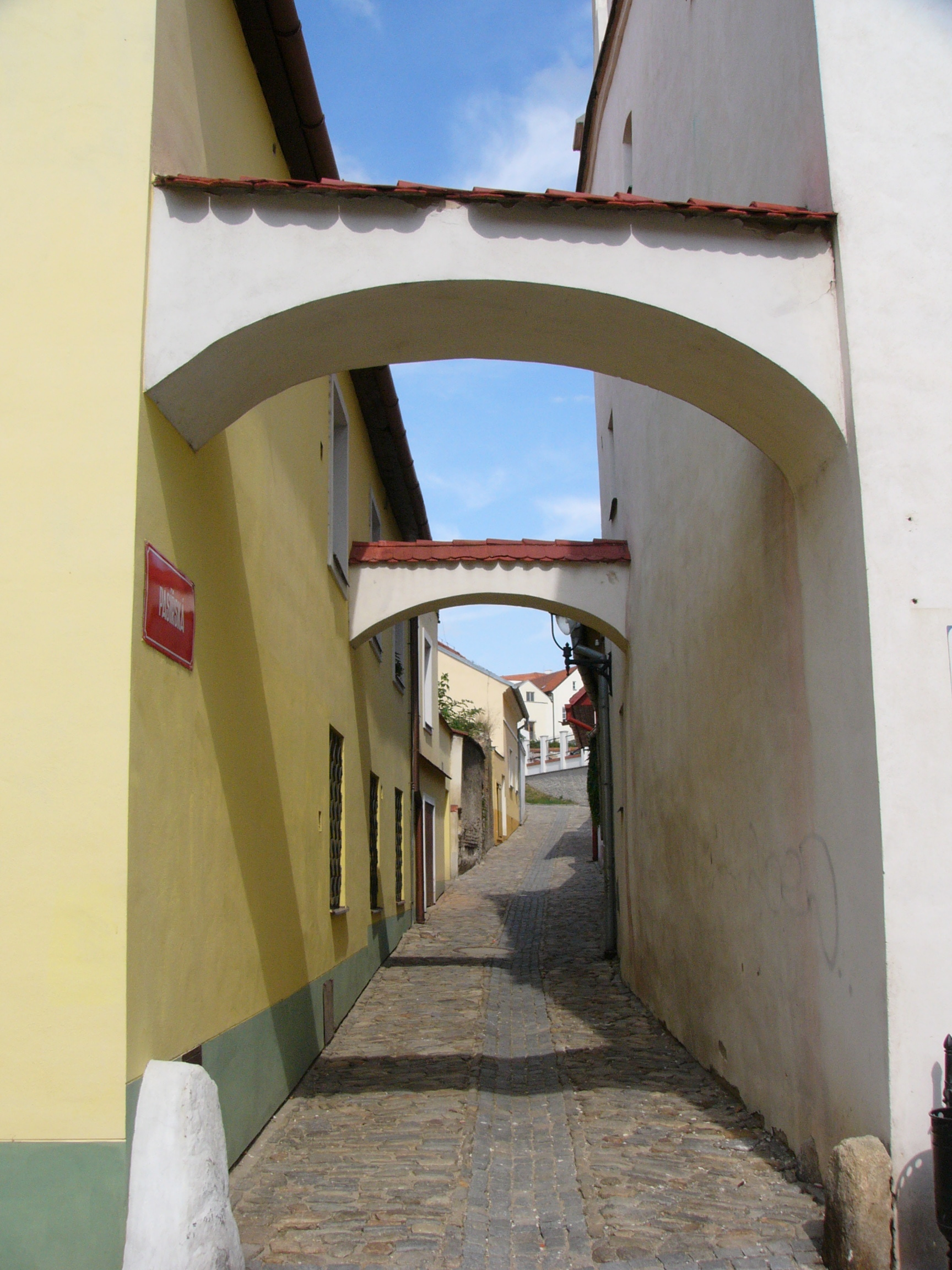 archs in Znojmo